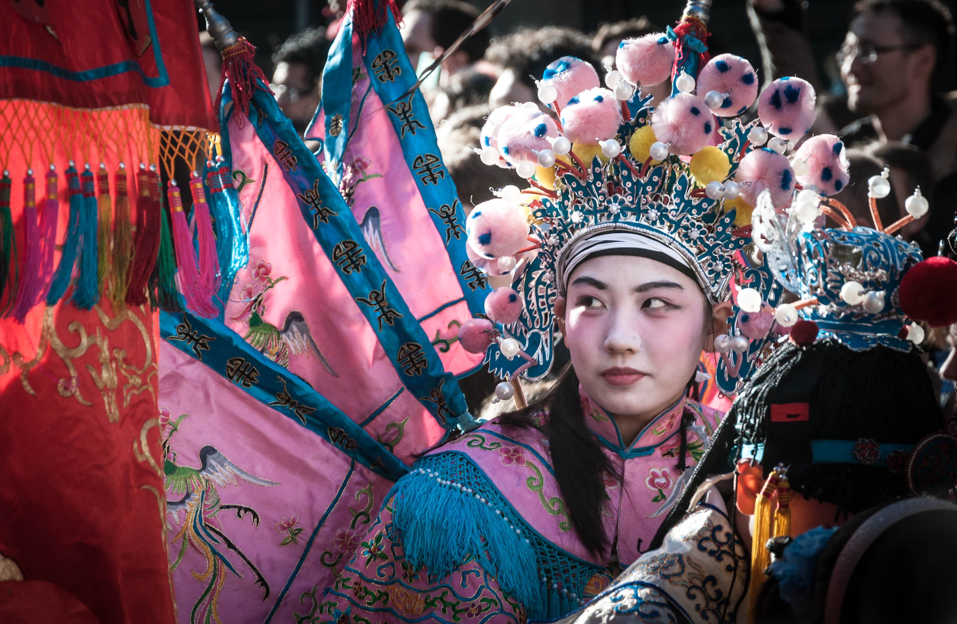 Chinese New Year 2014 in Paris, Rue du Temple.